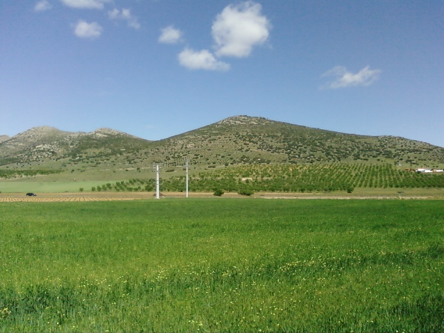 Malagón hills, Malagón, Spain.